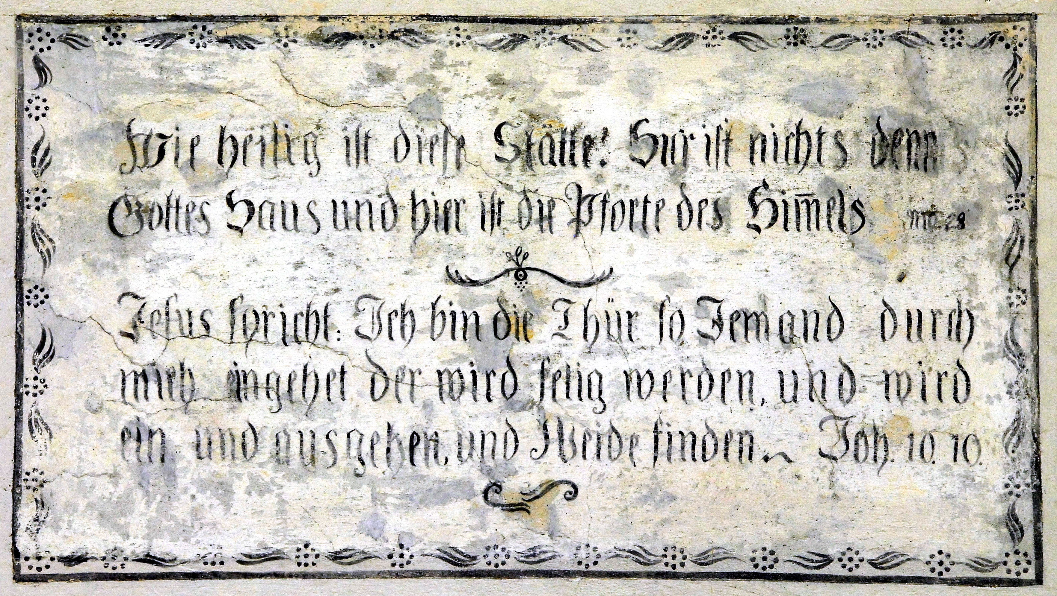 Superscript above the entrance portal of the protestant diocese museum (formerly tolerance meeting house) at Fresach in the community Fresach, district Villach-Land, Carinthia, Austria